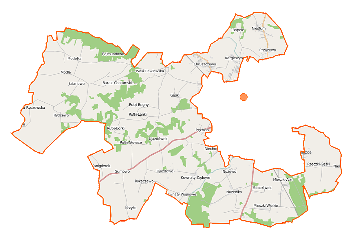 Map of Gmina Ciechanów, Poland This map of Ciechanów (gmina wiejska) was created from OpenStreetMap project data, collected by the community. This map may be incomplete, and may contain errors. Don't rely solely on it for navigation.